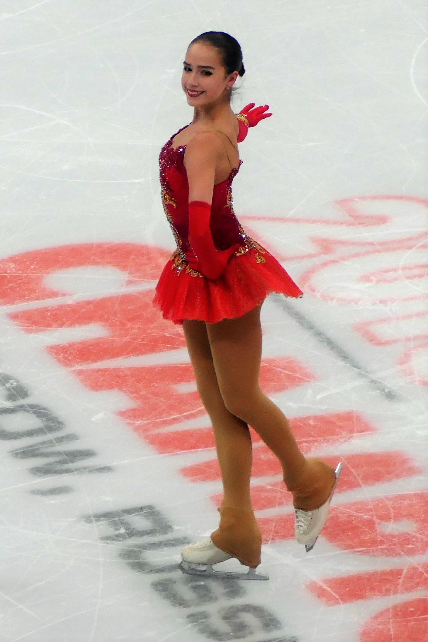 Alina Zagitova (RUS) at her free program at the European championships in figure skation 2018 in Moscow